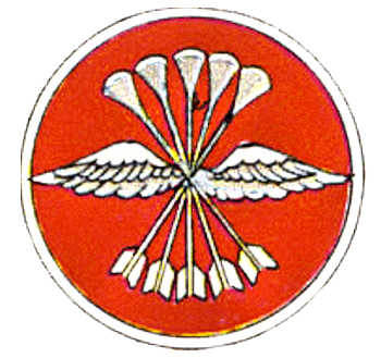 112th Observation Squadron - Emblem